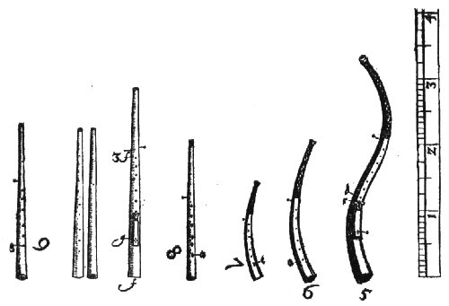 Cornetto